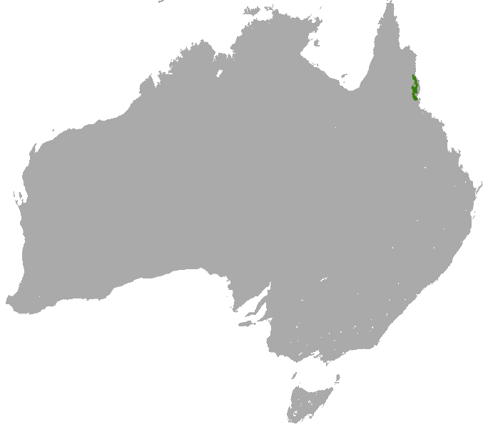 Lumholtz's Tree Kangaroo (Dendrolagus lumholtzi ) range